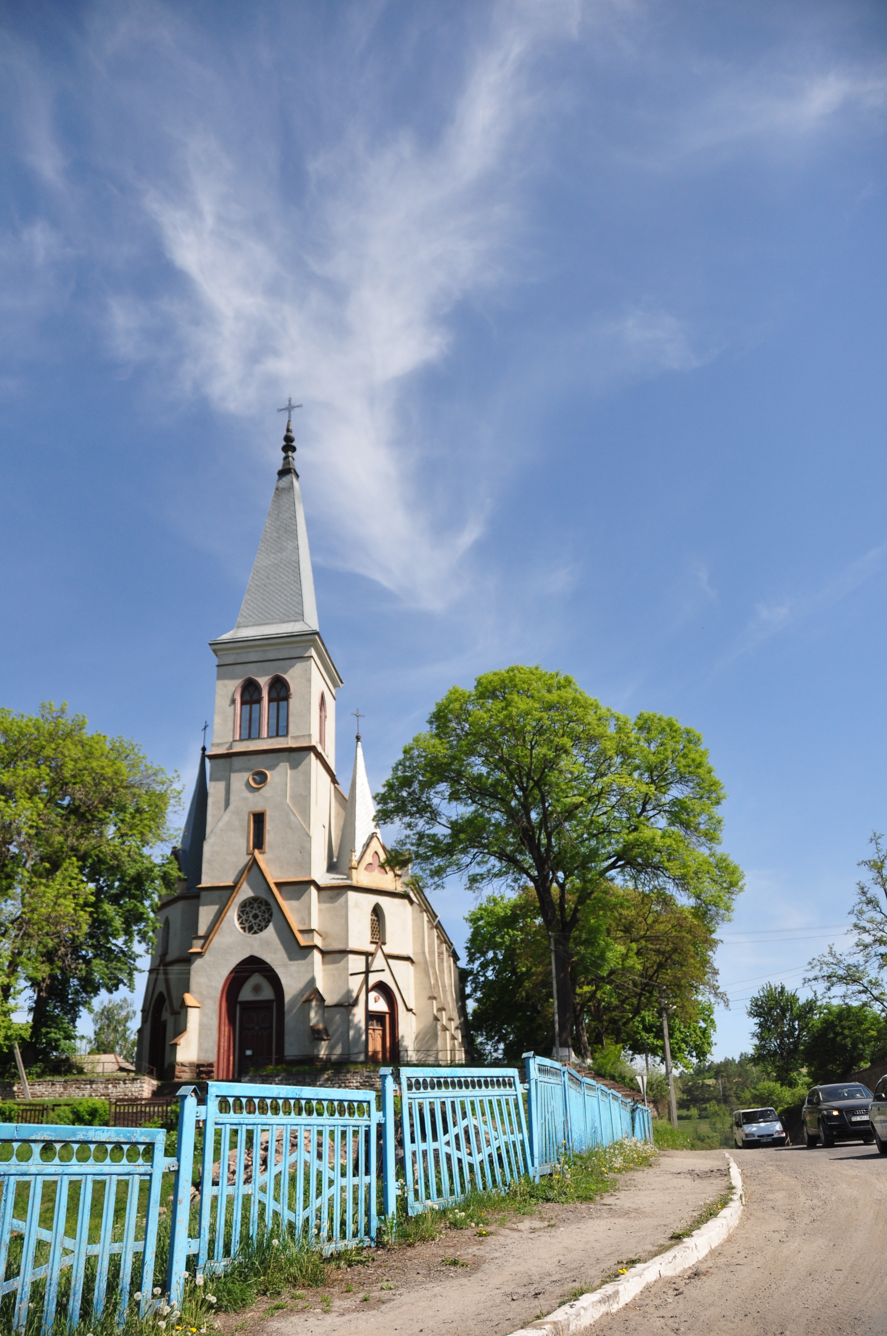 St. Anthony Church in Strusiv, terebovlia Raion, Ternopil Oblast. Built in 1903.